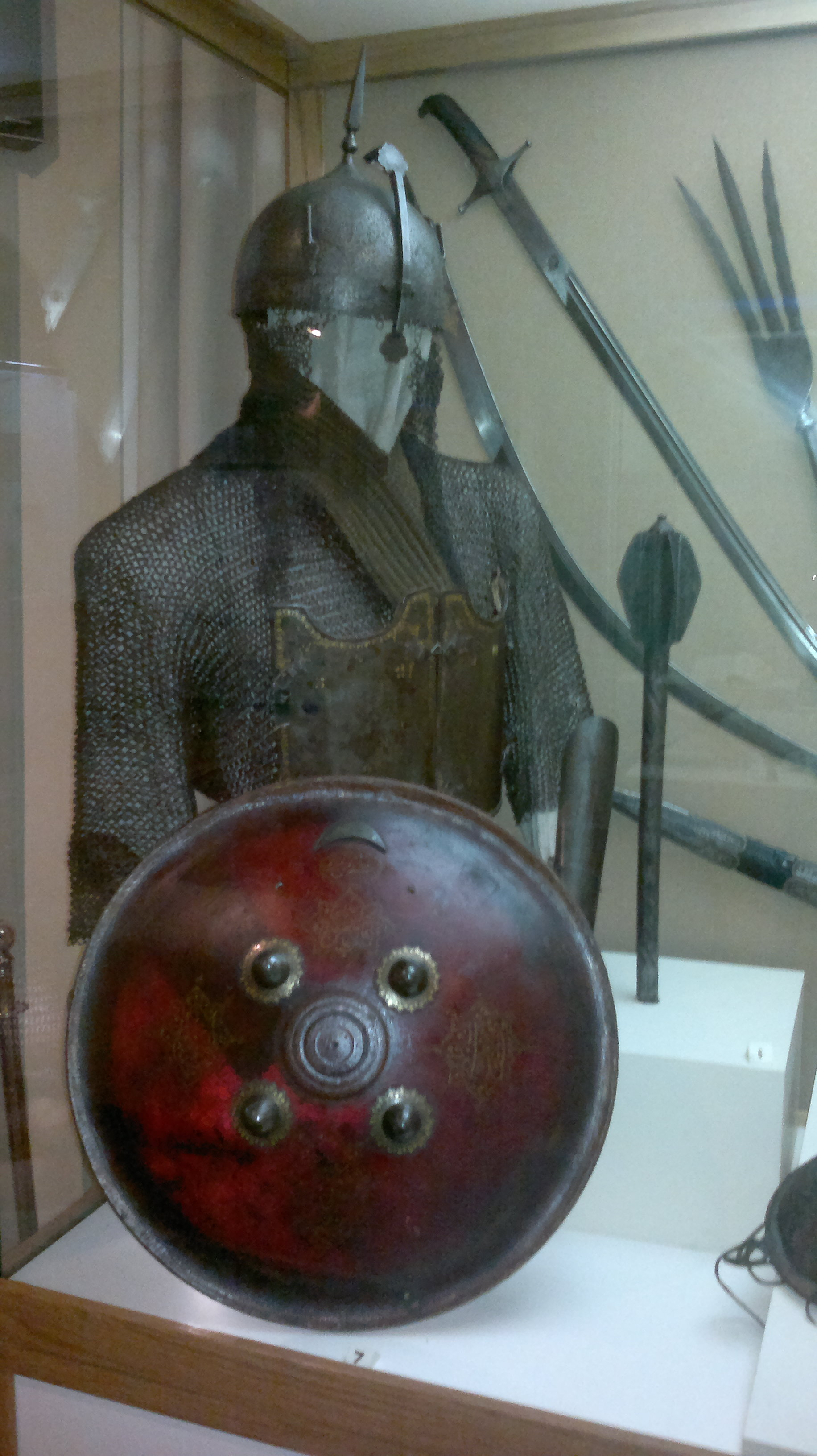 Weapons and armors of the warior's of Aqqoyunlu and Qaraqoyunlu Empires. Museum of History of Azerbaijan, Baku